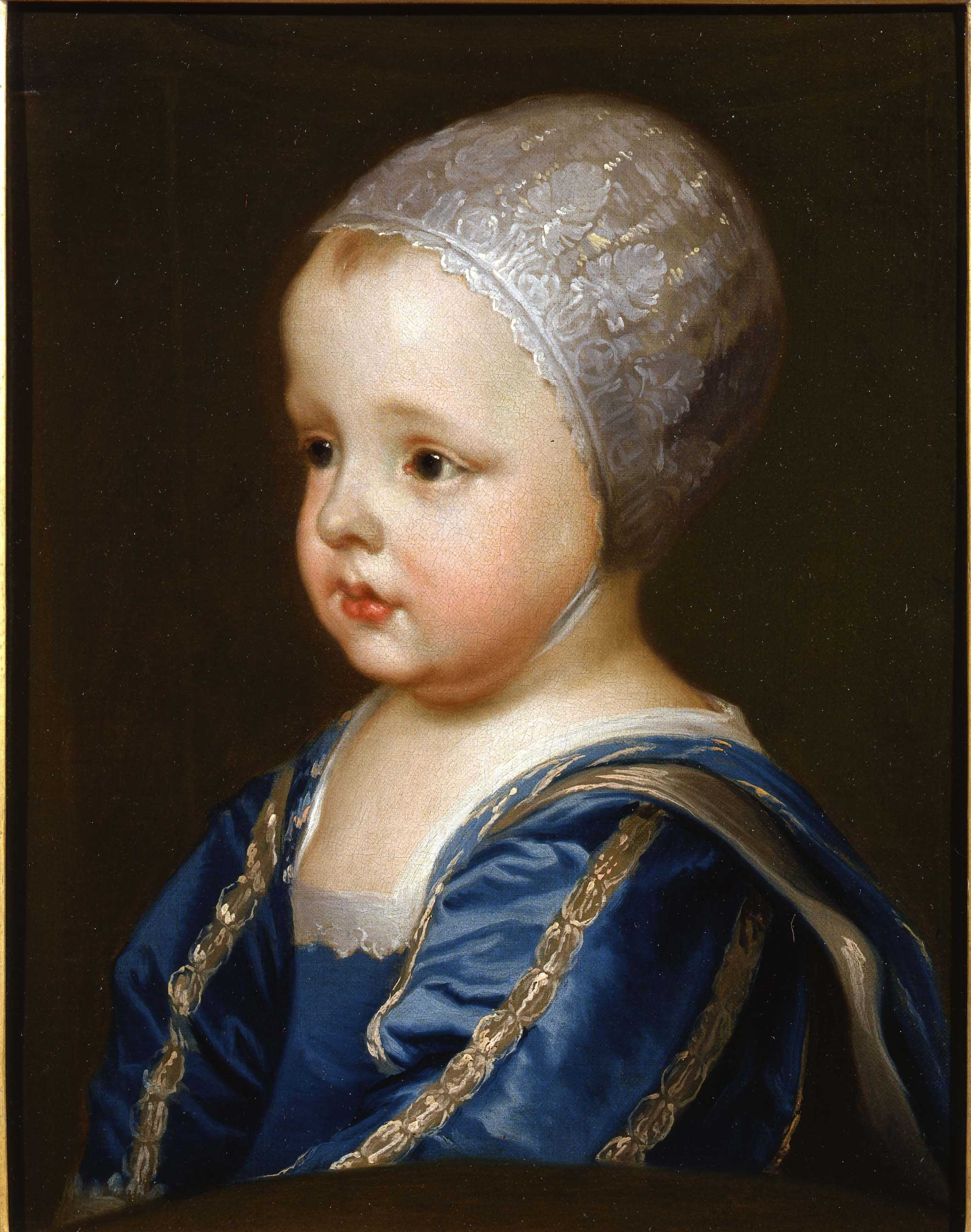 This charming study of the young Duke of York derives from the portrait of The Three Eldest Children of Charles I (Galleria Sabauda, Turin), which was painted by Van Dyck in 1635, asa gift from Queen Henrietta Maria to her sister Christina Duchess of Savoy.